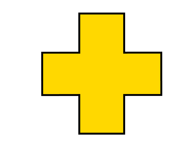 72. Infanterie Division, German Army, World War II